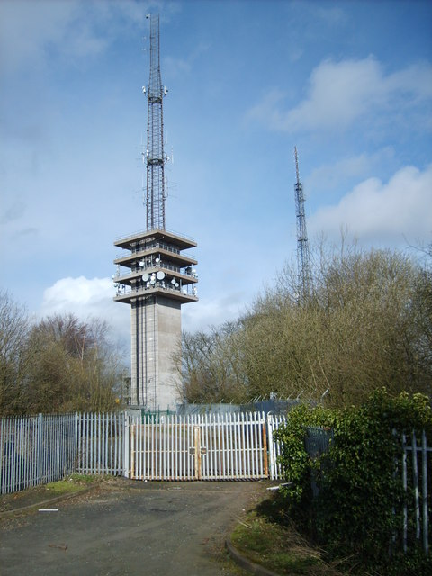 Dudley Masts The top of Turner's Hill near Dudley.